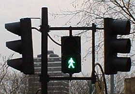 Example of a Green man Pedestrian filter on a UK traffic light.